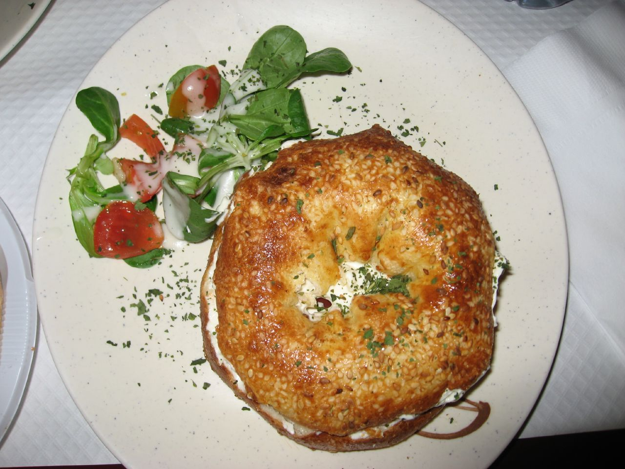 Delicious Bagel in in the Jewish Quarter of the Marais, Paris.